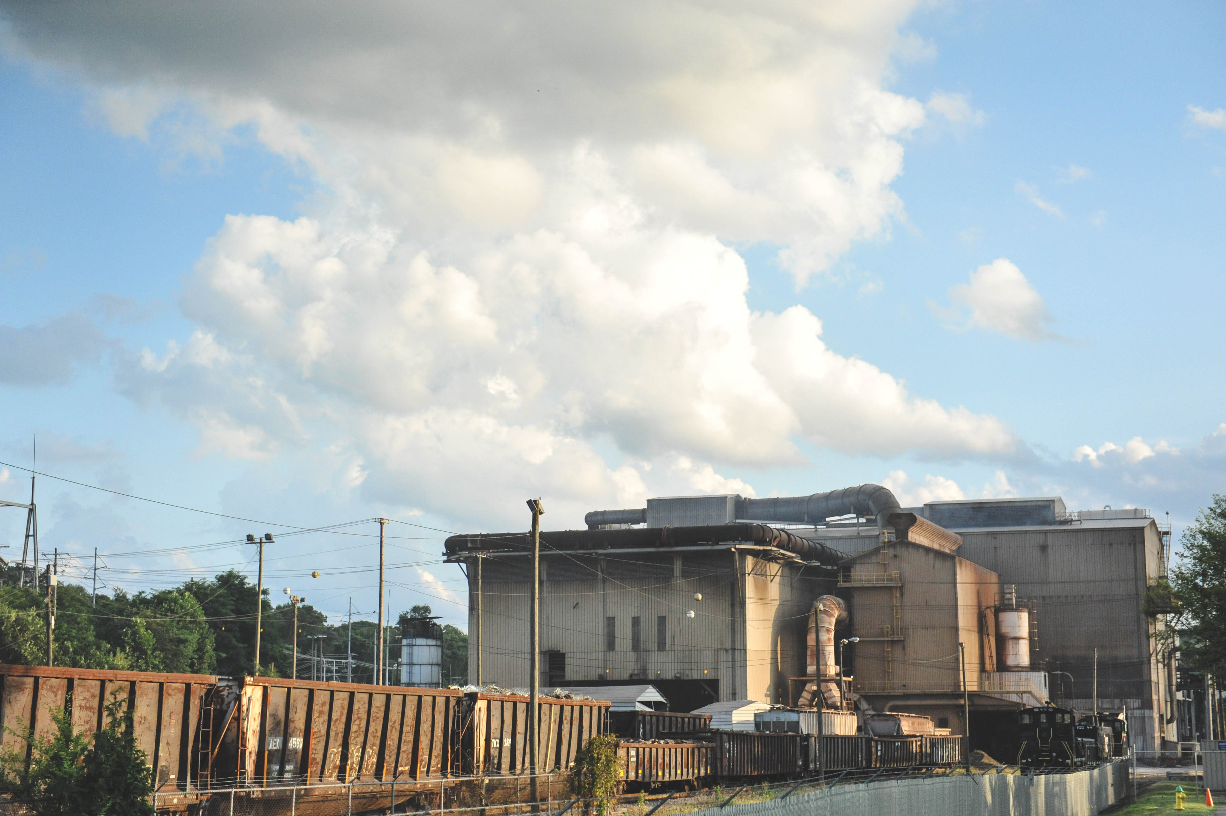 This photo was taken by Andrea Spidell for Thrive Lonsdale